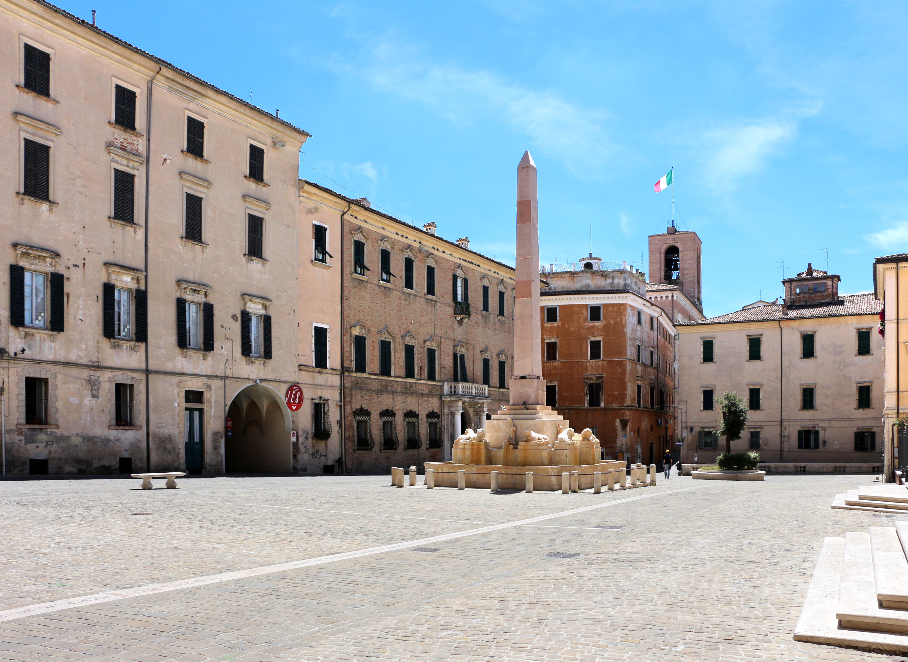 Jesi, Italy